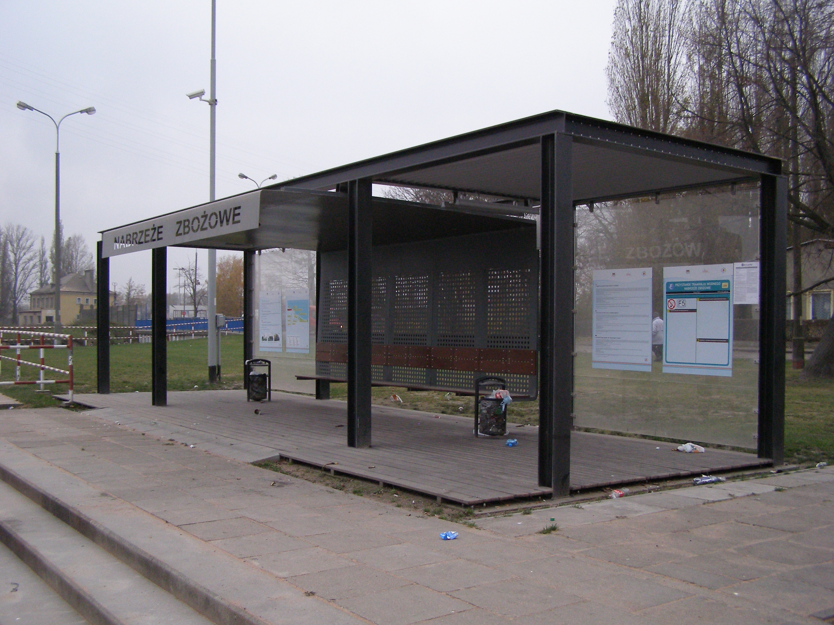 Gdańsk Nowy Port - Nabrzeże Zbożowe (Grain Wharf) ferry tram stop.